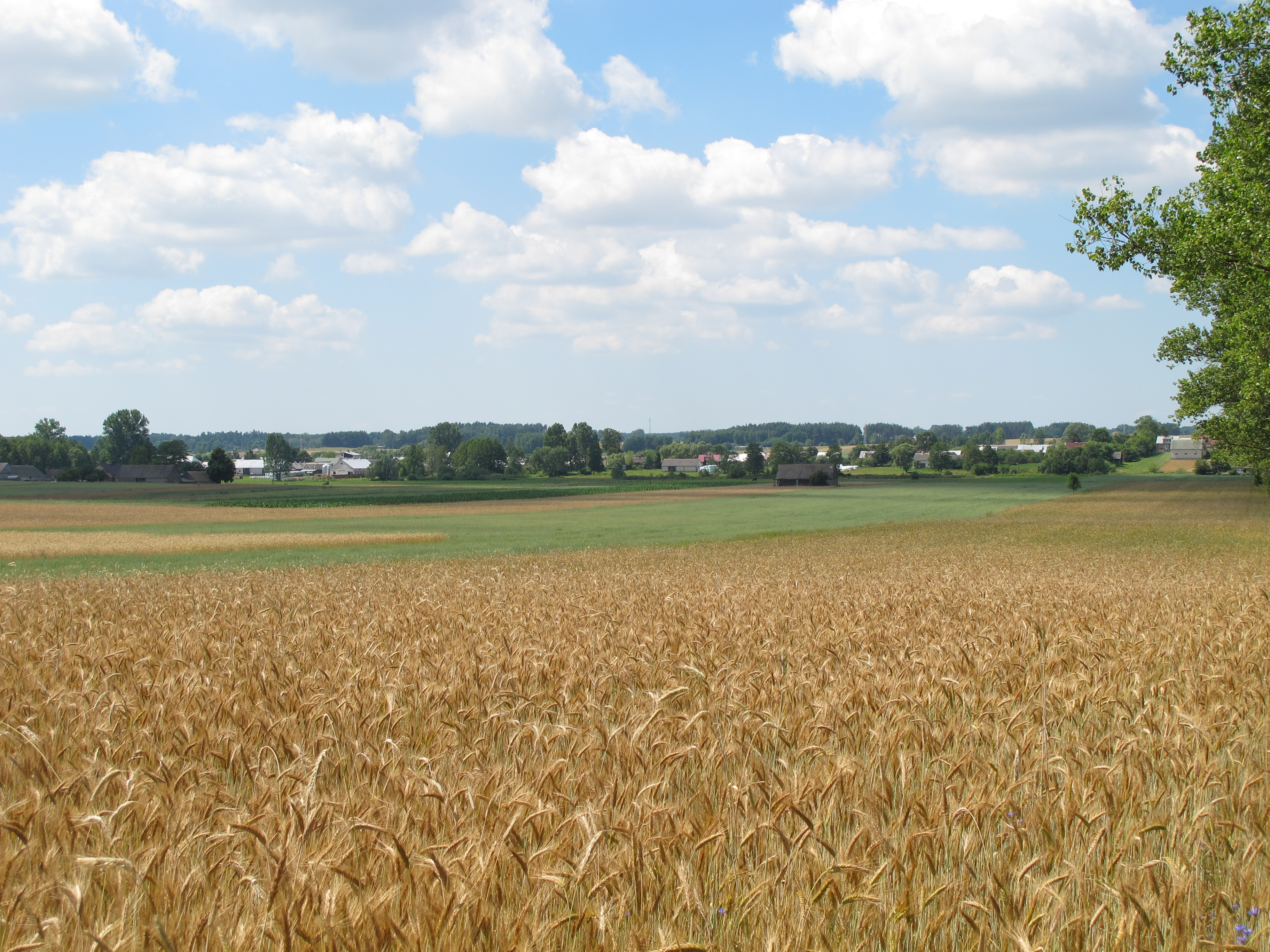 Przytulanka, gmina Mońki, podlaskie, Poland